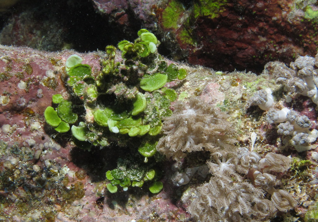 A species of Halimeda (green seaweed) at Sataya Reef, Red Sea, Egypt #SCUBA